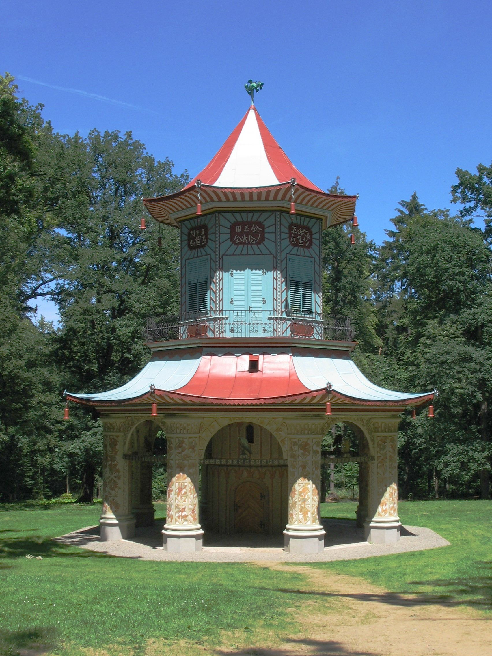 The reconstructed Chinese pavilon in Vlašim, Czech Republic